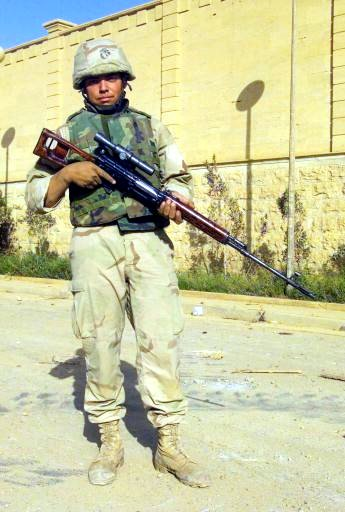 US Marines Corps (USMC) Sergeant Randy Sanchez, 1st Battalion, 7th Marines (1/7), Charlie Company, Twentynine Palms, California, holds a 7.62 mm SVD Draganov Sniper rifle found inside one of Saddam Hussein's palaces in Baghdad during Operation Iraqi Freedom. (Released to Public)